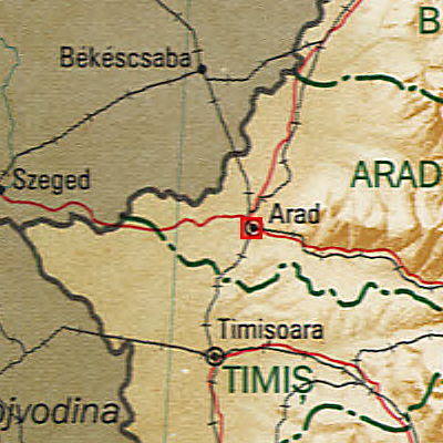 Map of Arad Municipality, Romania.